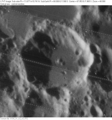 Maclaurin lunar crater - Lunar Orbiter IV image LO-IV-184H LTVT